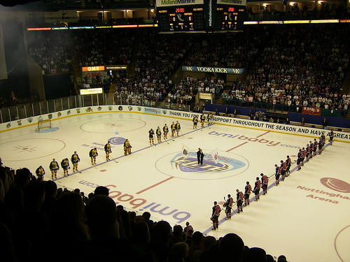 Nottingham Panthers v Cardiff Devils - Elite league playoff final -Sunday April 9th 2007 - 3pm